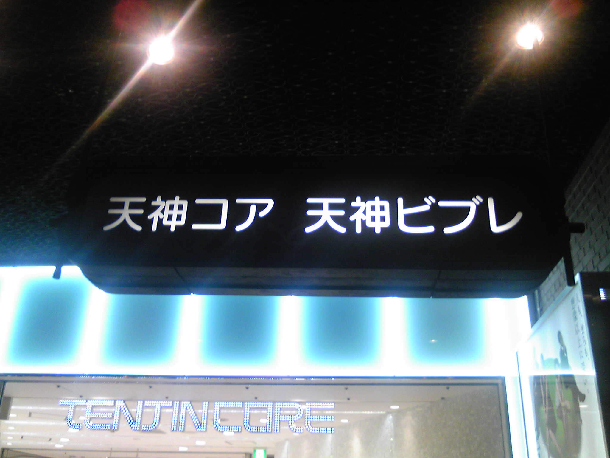 Sign for Tenjin Core and Tenjin VIVRE at Tenjin Chikagai